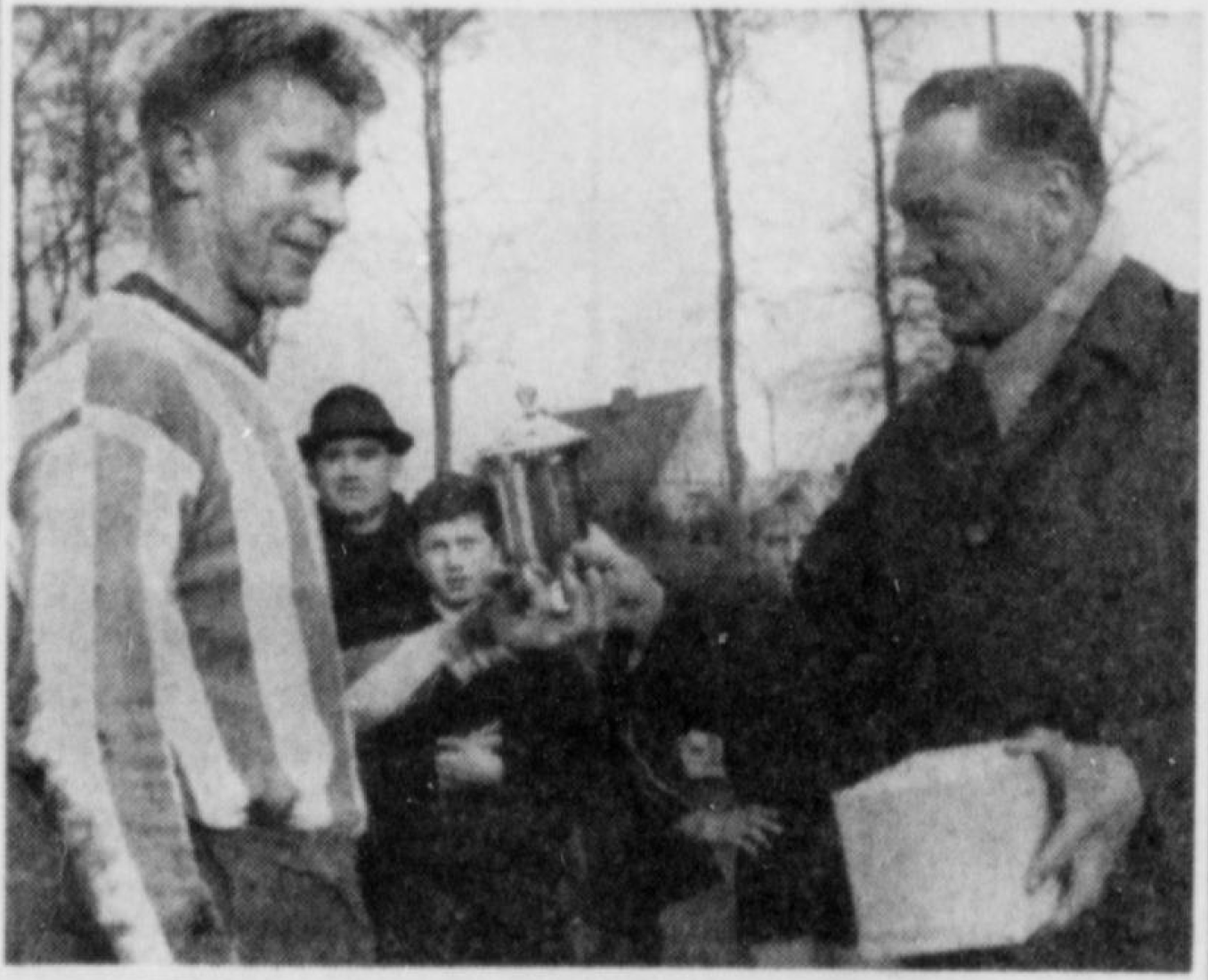 Trophy ceremony for the winner of the 1963 Funen Series — Picture shows Odense Boldklub reserve's captain Svend Madsen (left) at receiving the trophy, referred as the "FBU-pokalen", from Funen Football Association's representative C. A: Kofoed (right) at the award ceremony following the teams' final match of the 1963 season against Svendborg fB reserves at Høje Bøge Stadium. The match, played on 17 November 1963, was won 1-0 by the Odense Boldklub reserves. Behind them are show several spectators.